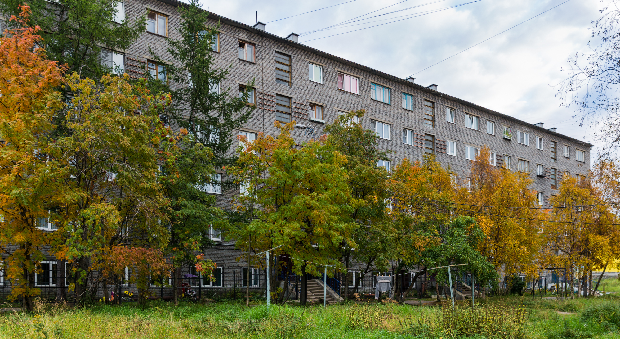 Kandalaksha rushovka